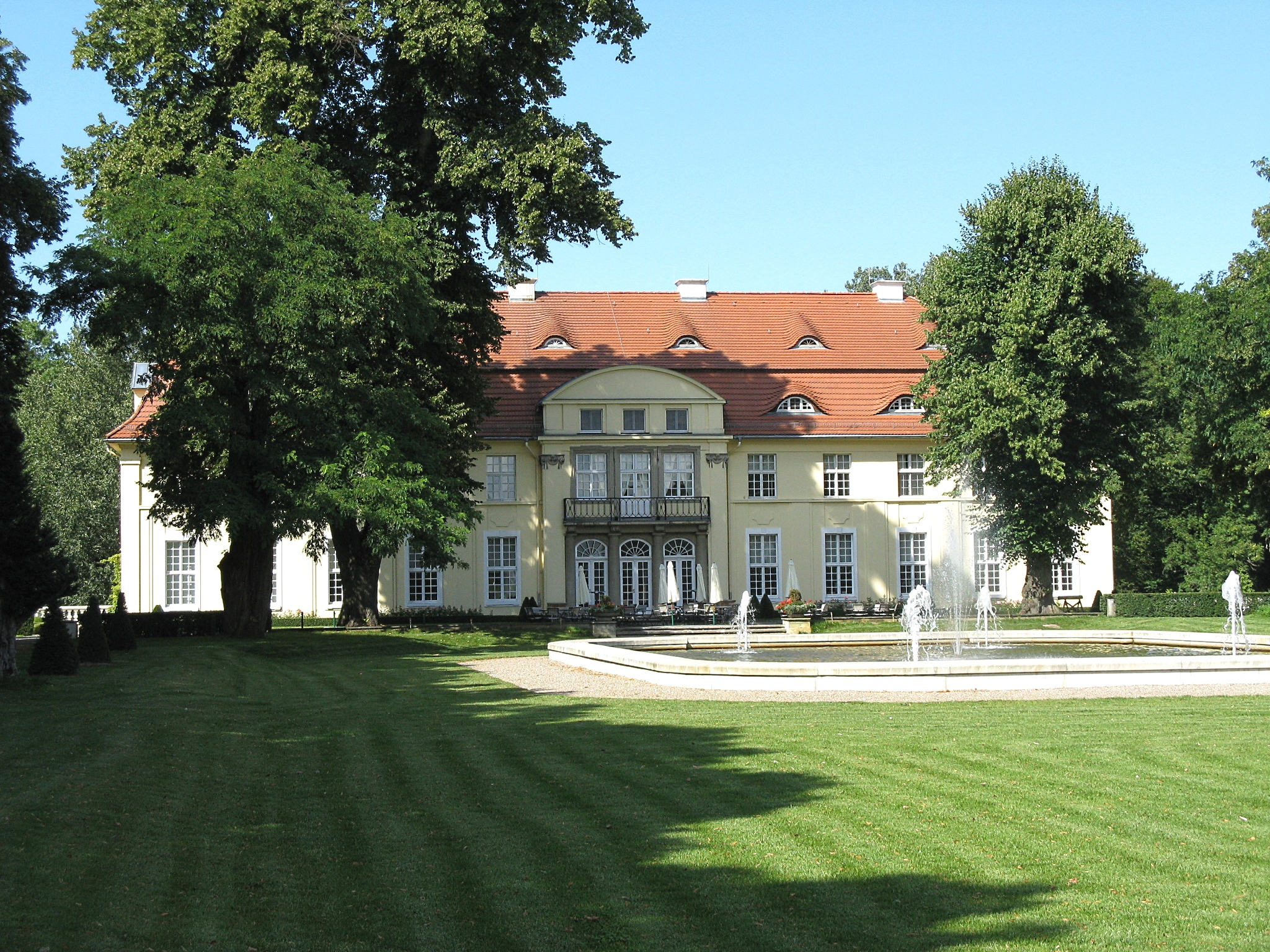 Former manor house in Hasenwinkel, Mecklenburg-Vorpommern, Germany